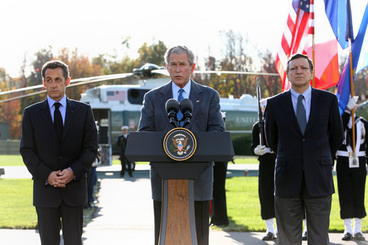 President George W. Bush is joined by French President Nicolas Sarkozy, left, and Jose Manuel Barroso, President of the European Commission as he addresses the media during a meeting at Camp David concerning the economic crisis and the need for coordinated global response Saturday, October 18, 2008.